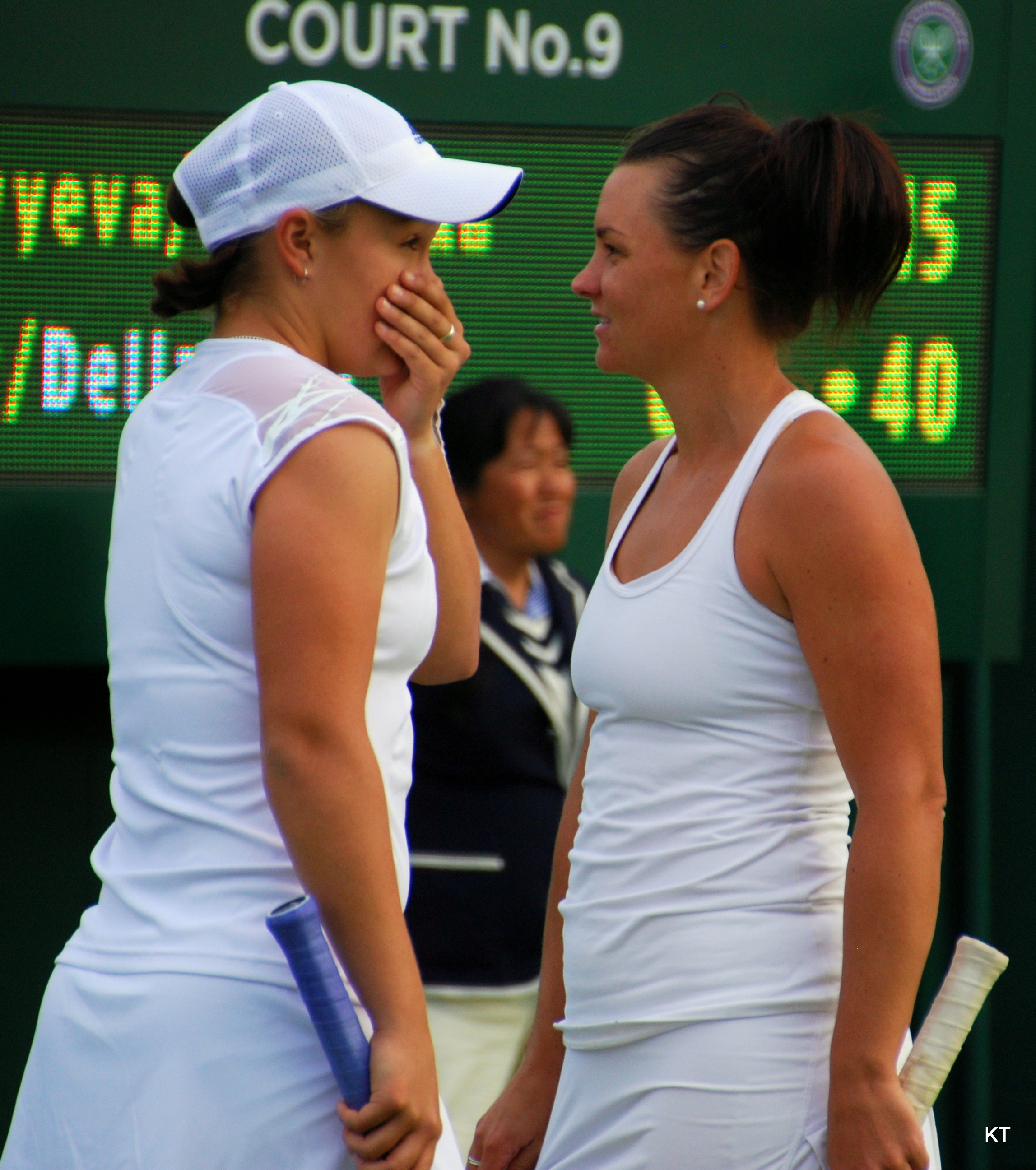 Ashleigh Barty & Casey Dellacqua